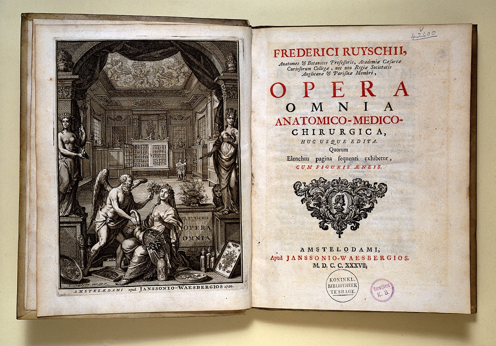 Title page and frontispiece. Rare Books